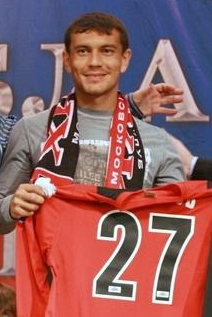 Wladimir Baýramow as a player of FC Khimki